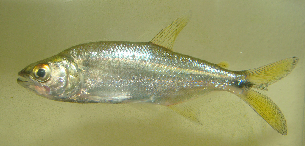 Oligosarcus jenynsii from Pelotas River, Rio Grande do Sul, Brazil, photographed on December 2008.